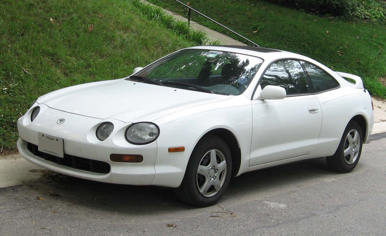 1994-1999 (this is an early 1994-1995 model) Toyota Celica GT Liftback (ST204) shown in Super White (colour code 040), photographed in USA.